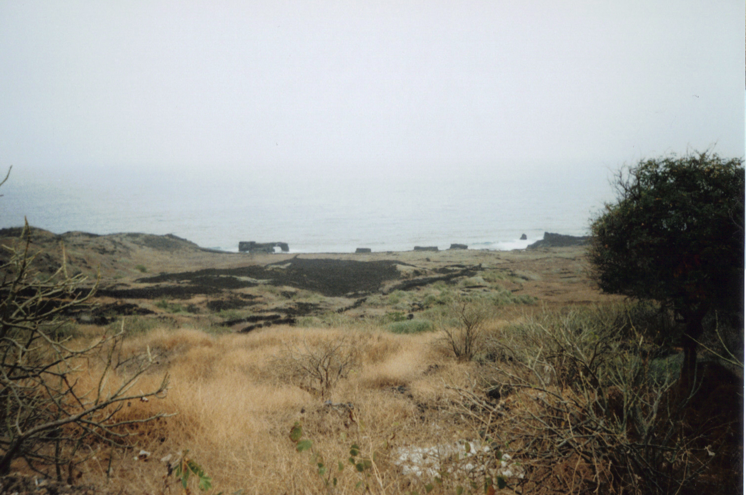 East coast, island of Fogo, Cape Verde